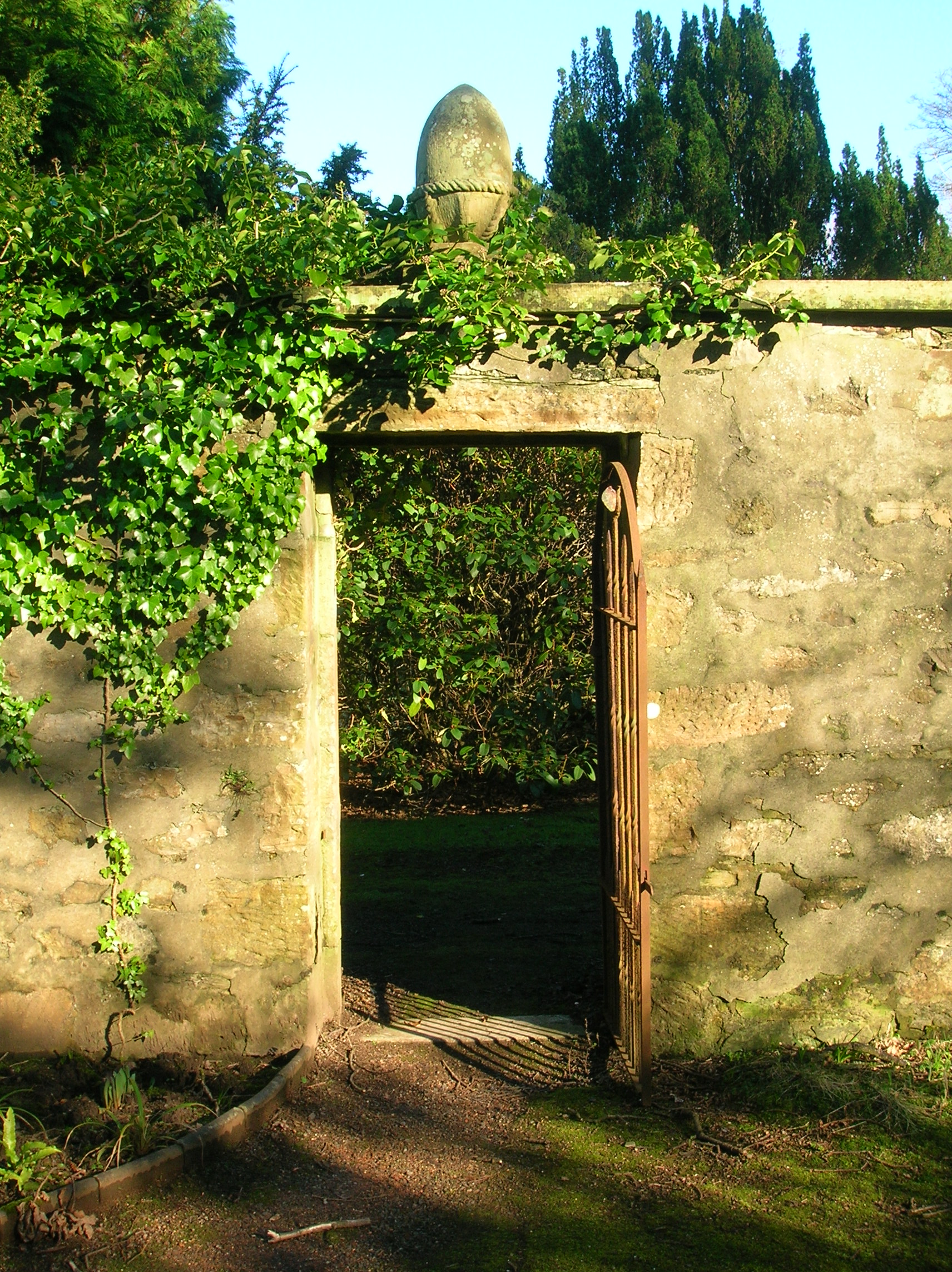 A stone pineapple above a stone doorway at Perceton, North Ayrshire, Scotland.